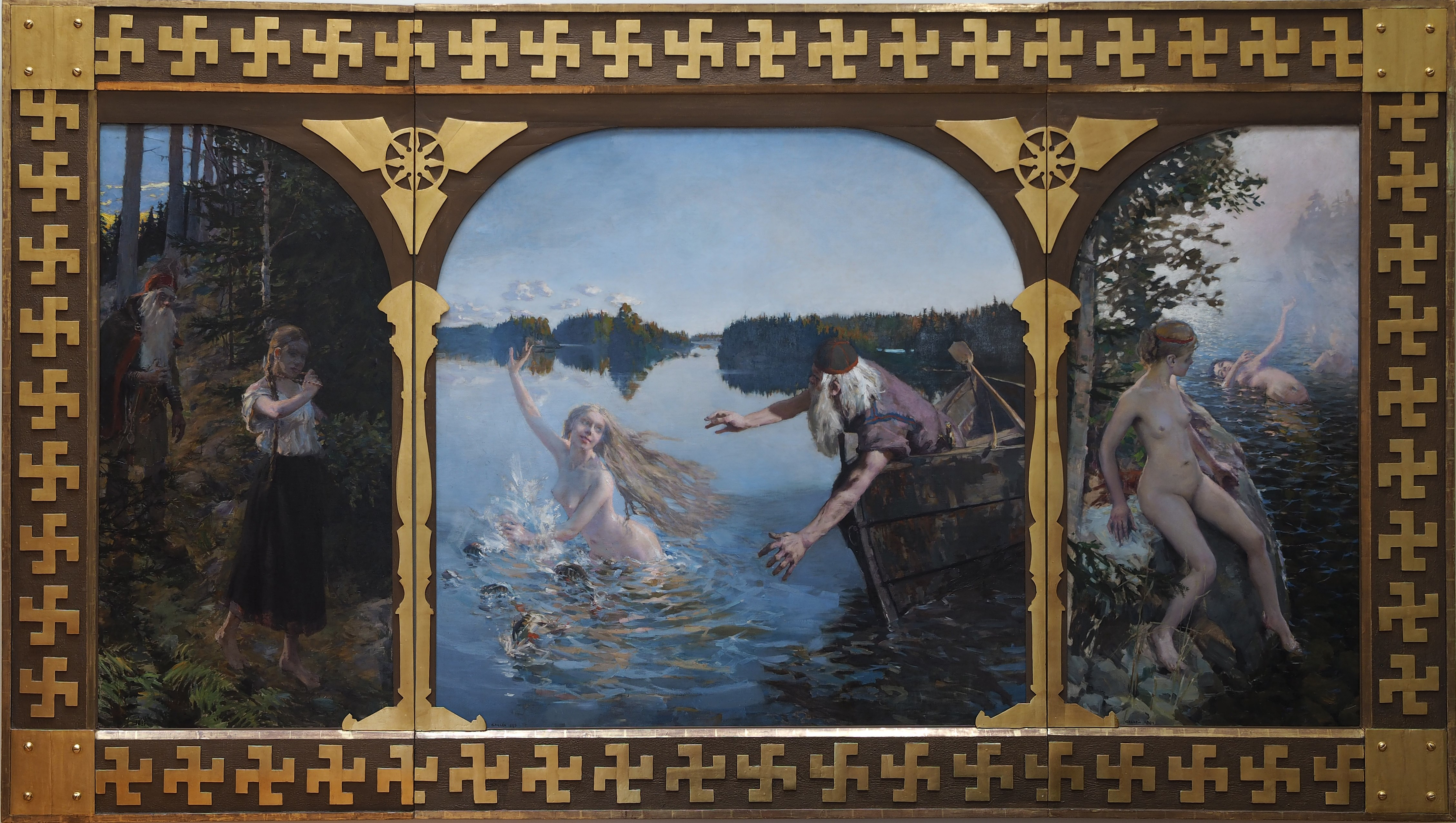 Original version of the Aino triptych. Gallen-Kallela is written to have been unsatisfied with how the French models didn't look Finnish, so in the final and famous 1891 version his wife acted as the model.